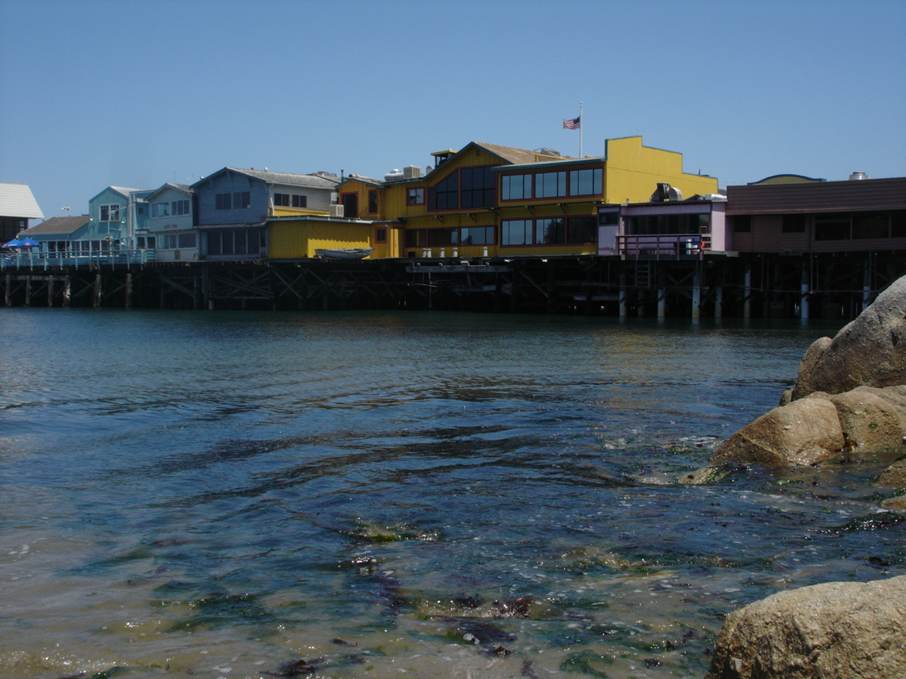 Fisherman's Wharf, Monterey, California, USA. I shot the picture myself.